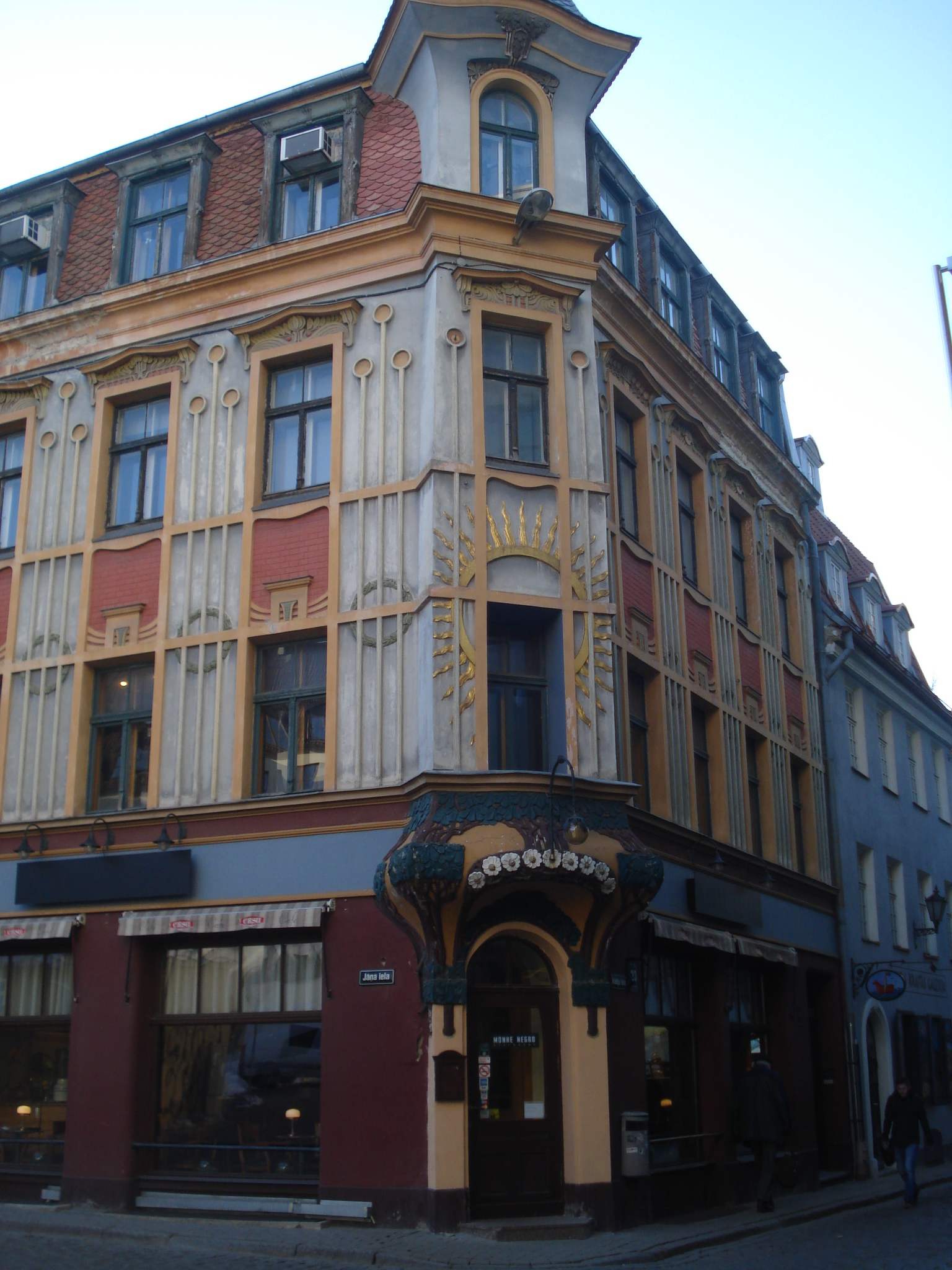 Art Nouveau or Jugendstil house in Riga, Kalēju str. 23